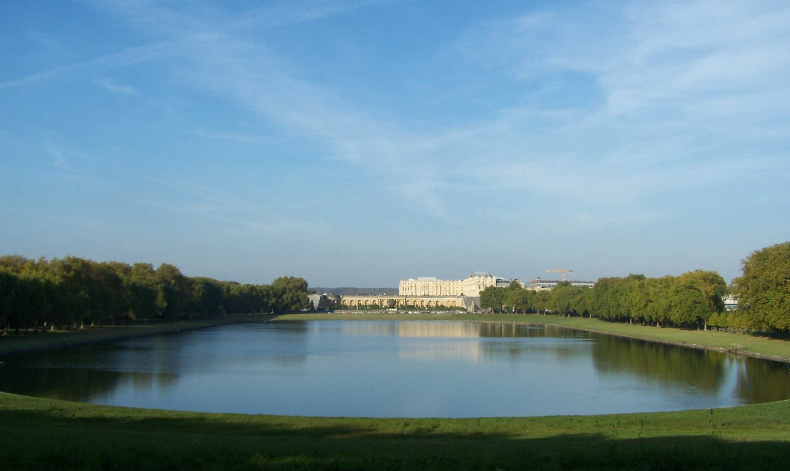 Sight of the Swiss lake in Versailles (Yvelines, France)